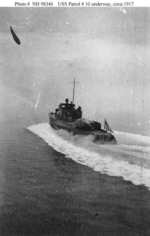 United States Navy patrol vessel USS Patrol No. 10 (SP-85) during World War I. Her stern markings identify her as USS Ten.